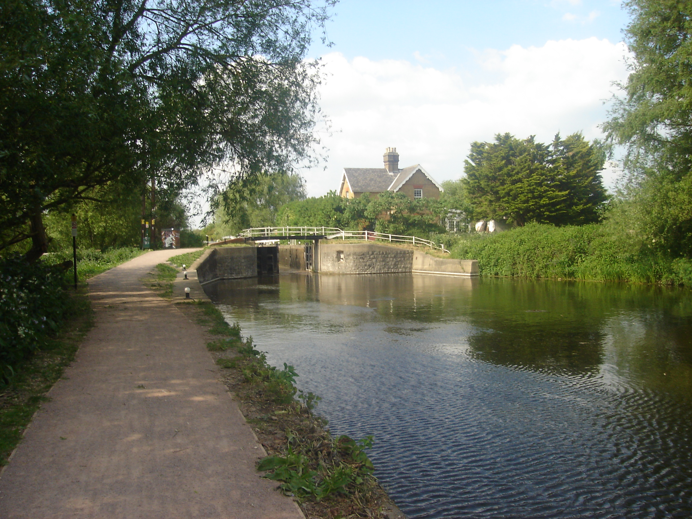 Picture of Waltham Common Lock